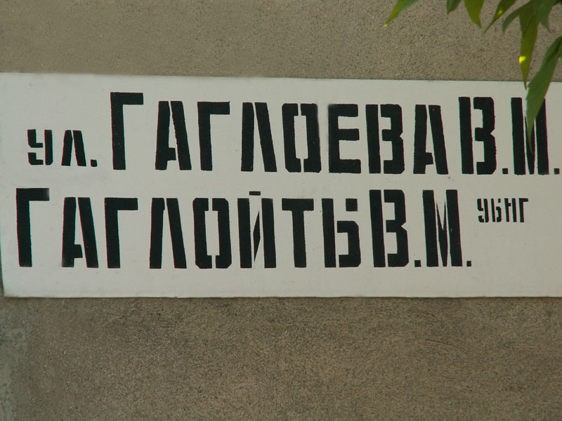 A street name in Tskhinval, South Ossetia. Vladimir Gagloev street. Foto by Reva specially for Wikipedia, May 2006.